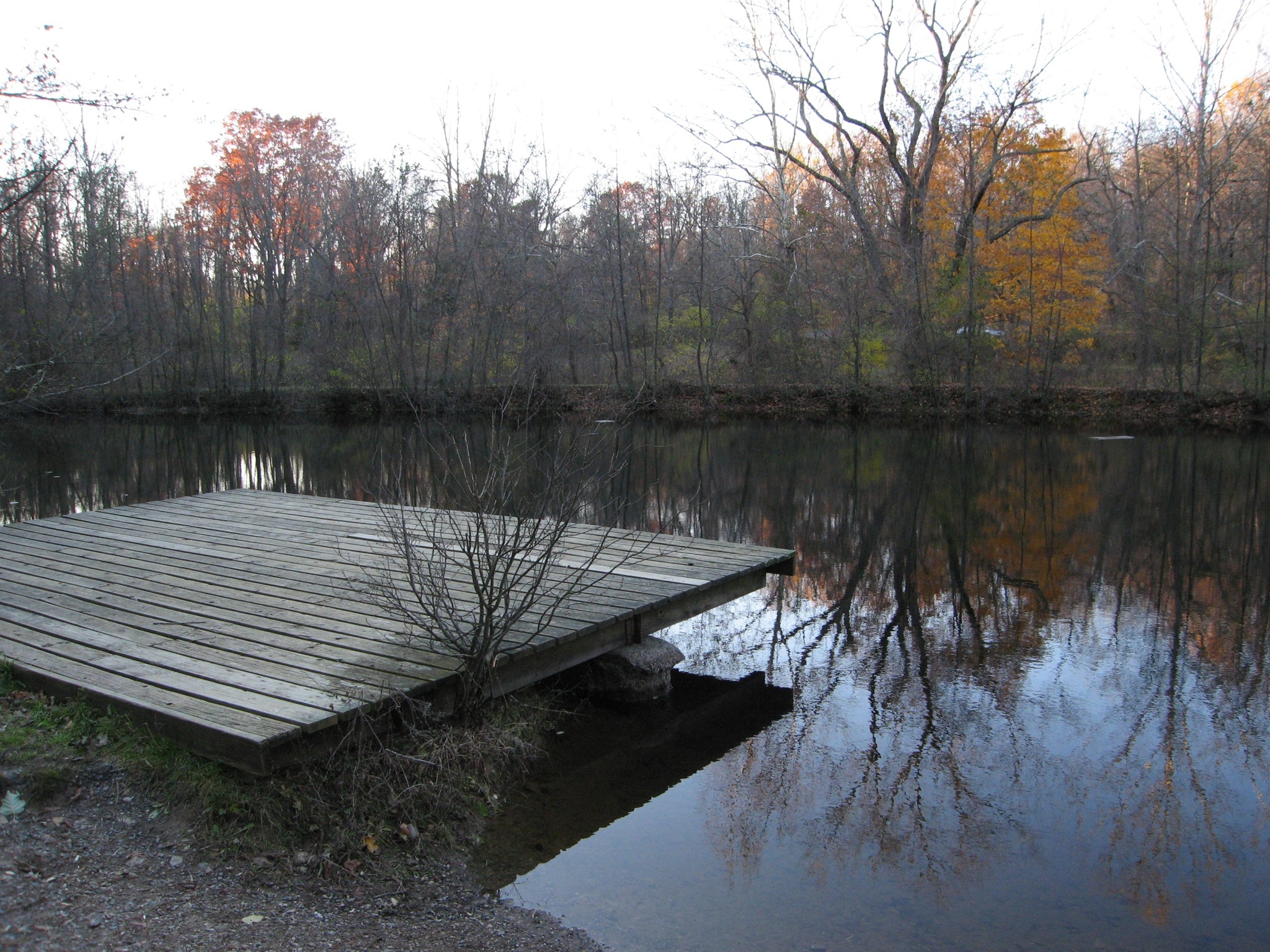 A pond at Nolde Forest.